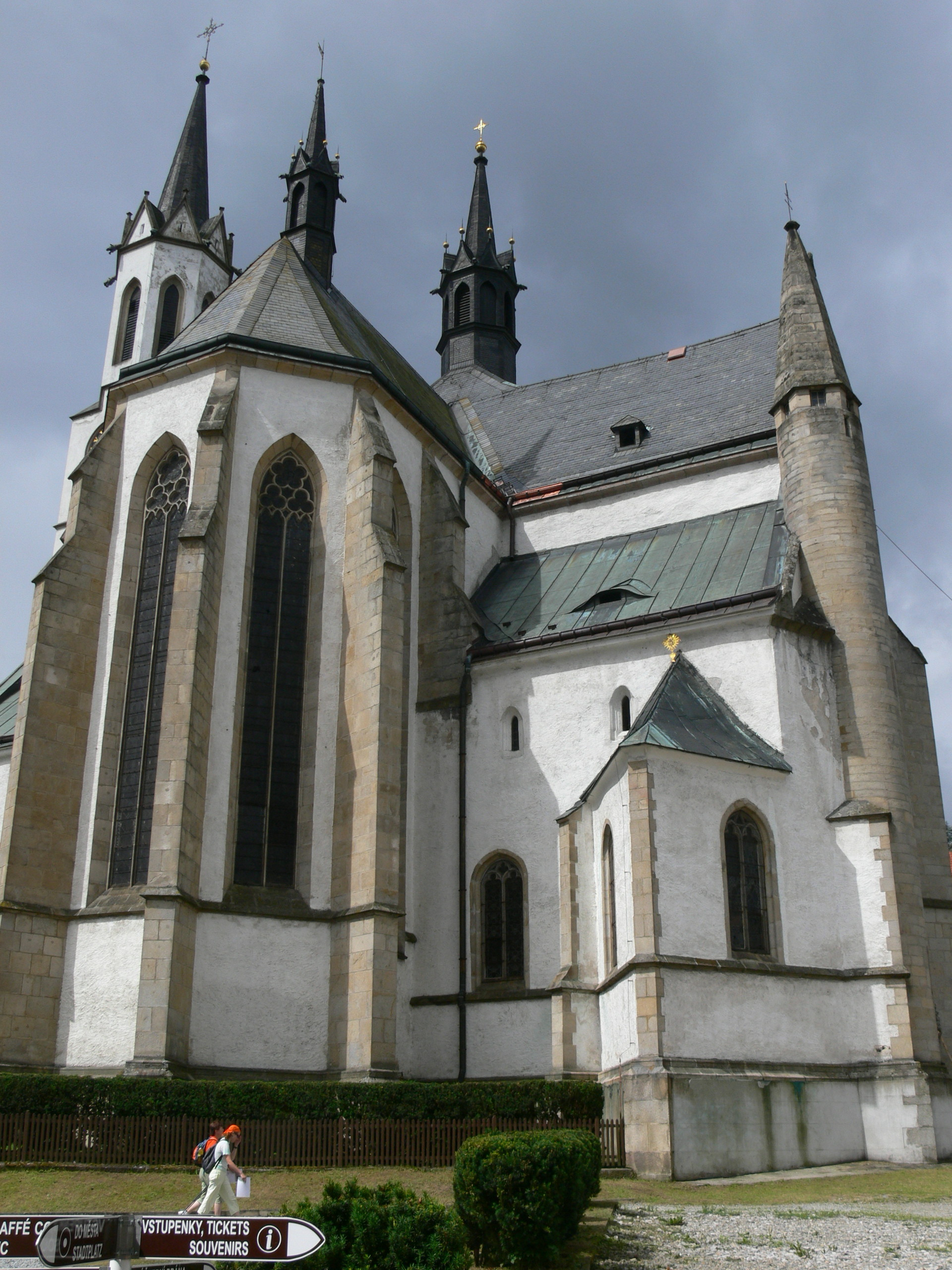 Monastery of Vyšší Brod ( Czech Republic ). Church of Mary Assumption ( 13th century ): Apse